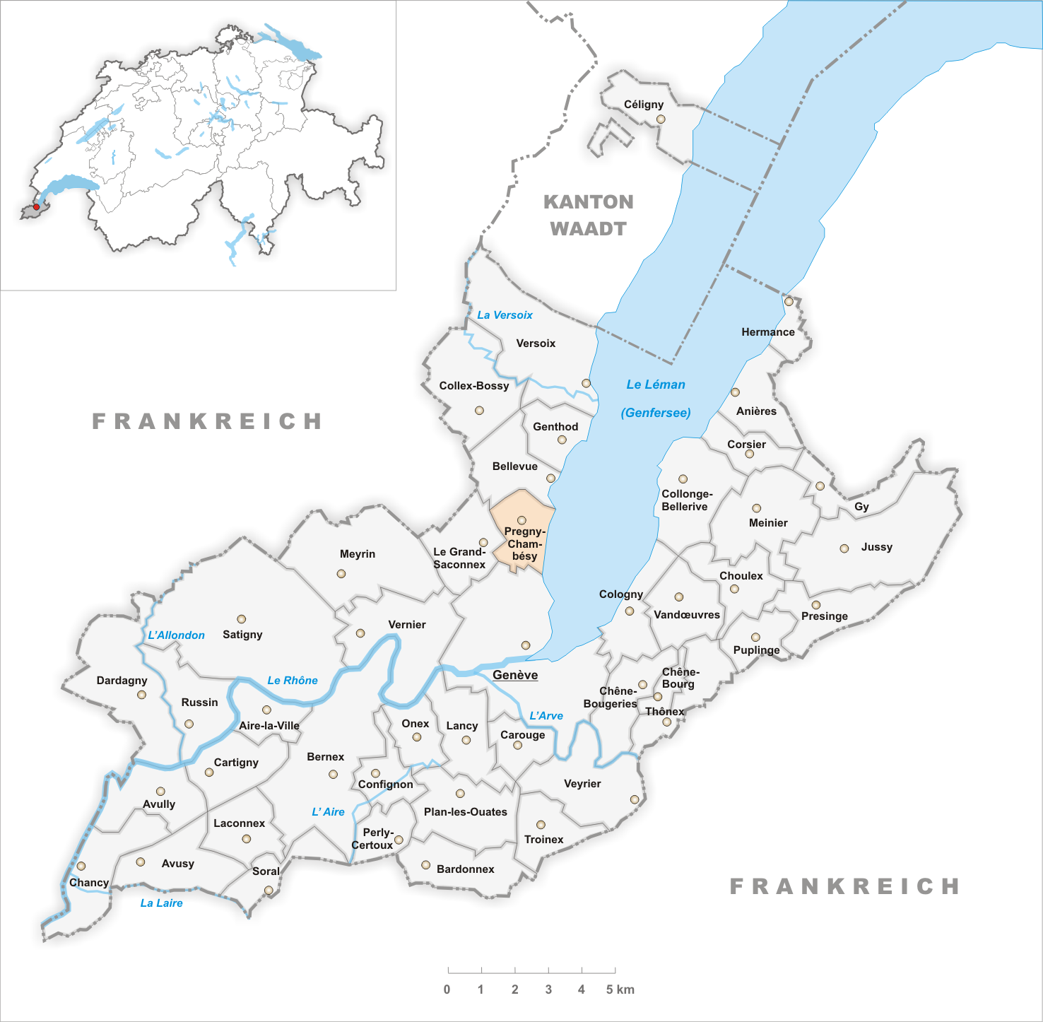 Municipality Pregny-Chambésy